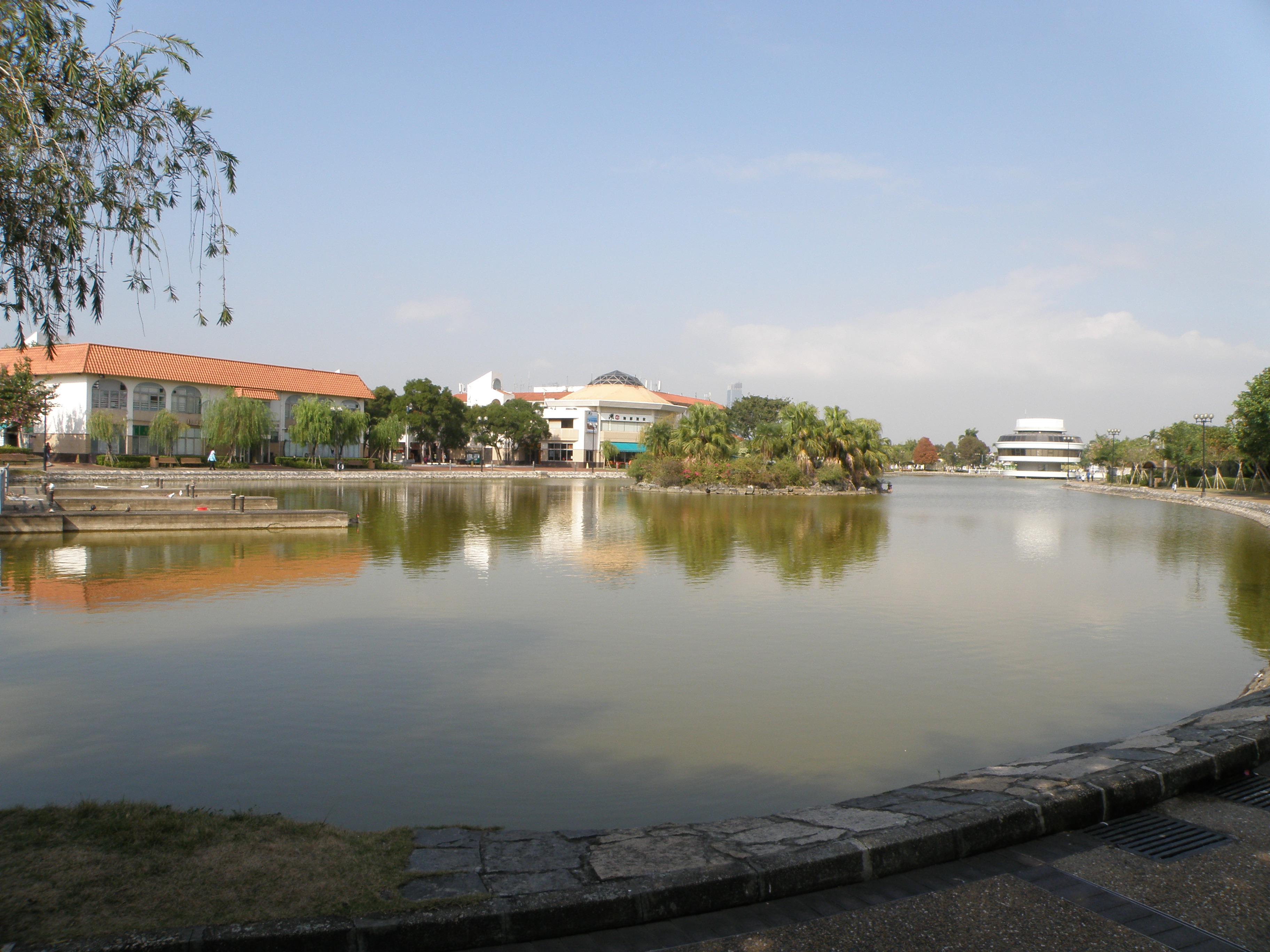 Fairview Park in Tai Sang Wai, Hong Kong.